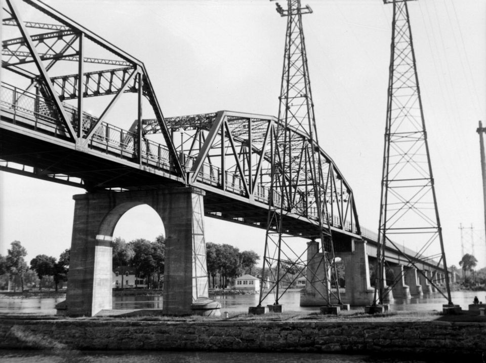 We see the Galipeault bridge (completely rebuilt since) between Sainte-Anne-de-Bellevue and Île Perrot.